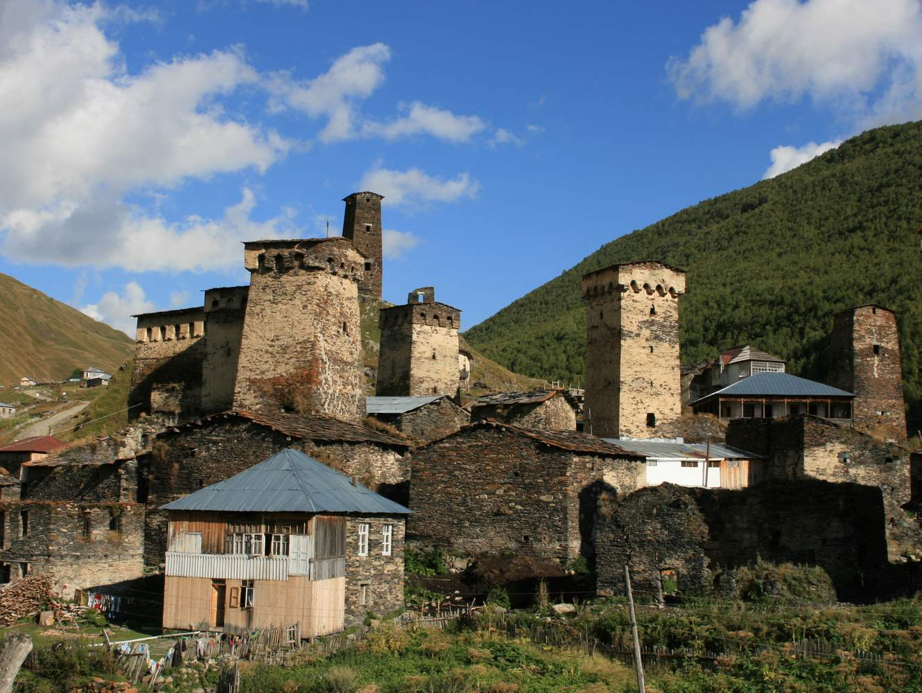 Chazhashi towers, Georgia.